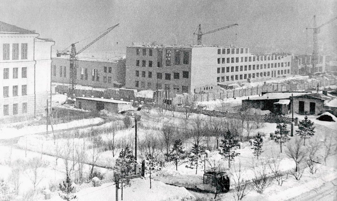 Construction in progress of the 3rd (the main) building of the Orenburg Polytechnic Institute (winter 1973/74).